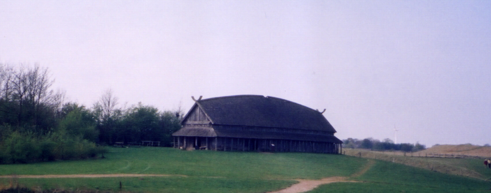 Reconstructed viking house just outside the Trelleborg, near Slagelse, in Denmark